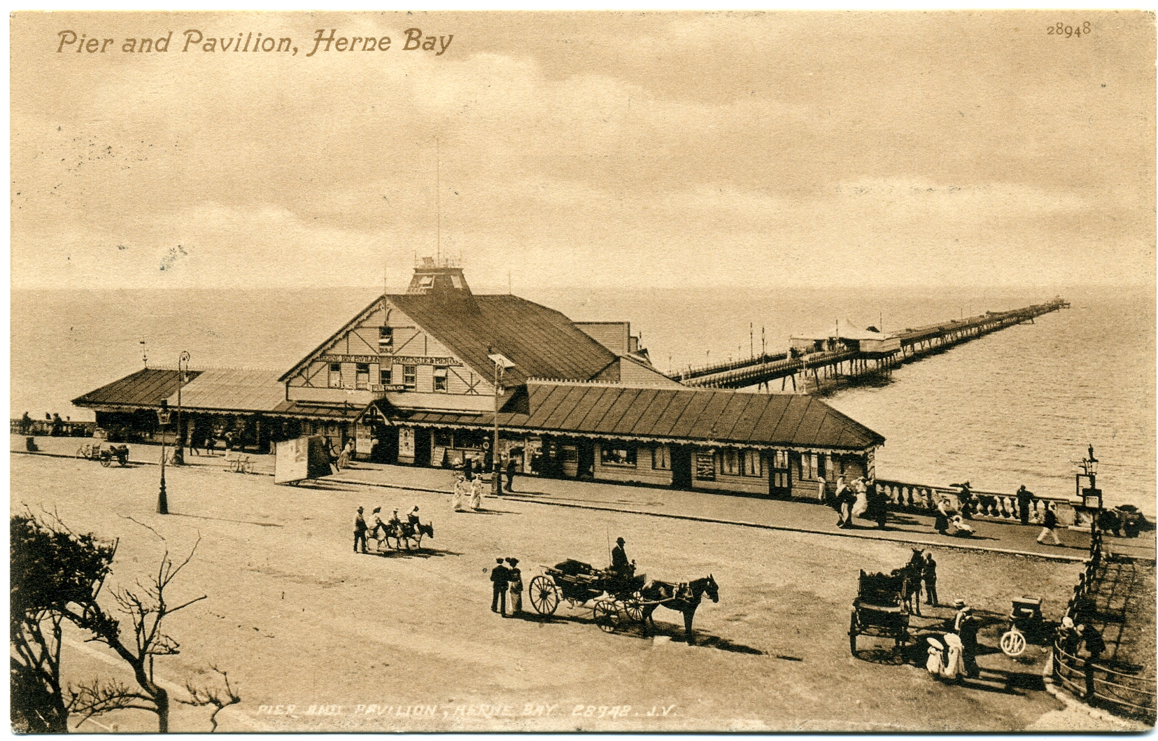 Postcard dated 1899-1908 showing the third Herne Bay Pier which was built 1899.